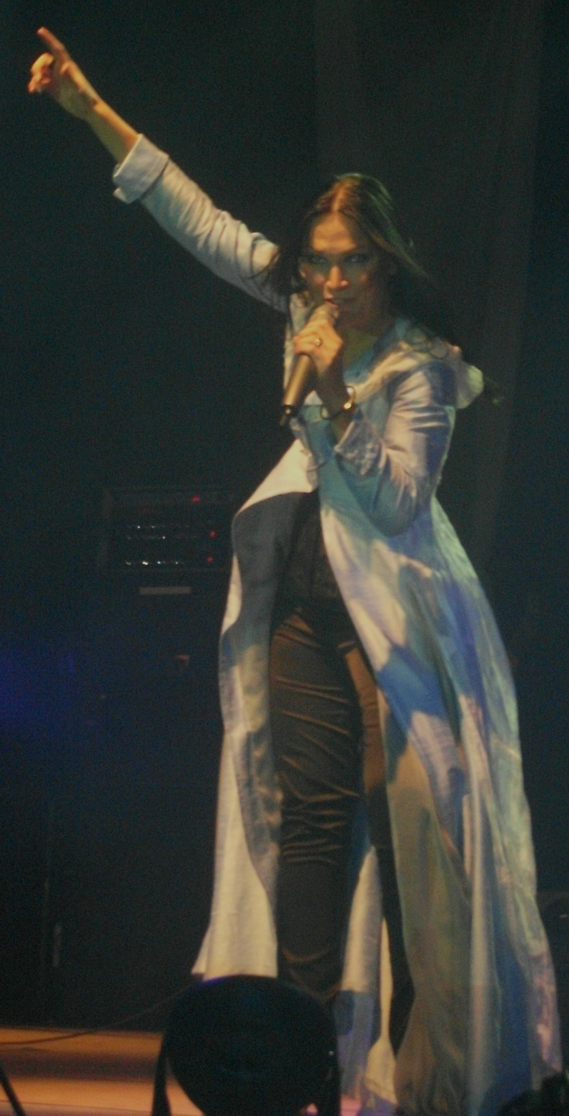 Tarja Turunen live in Sofia.